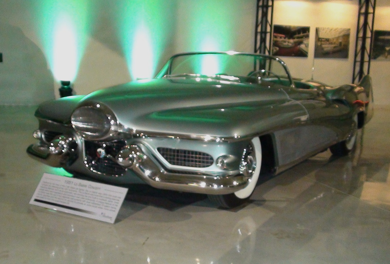 GM Heritage Center.